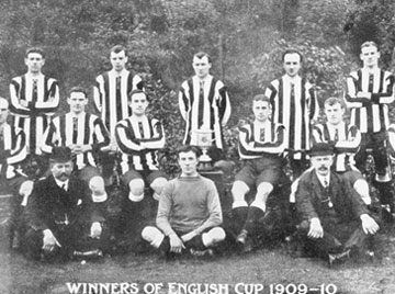 Newcastle United F.C. squad, who won the 1909-10 FA Cup